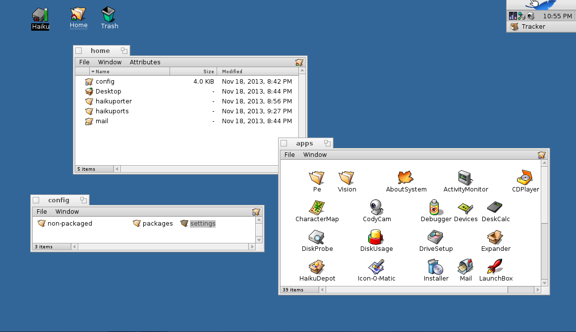 Tracker on Haiku Desktop